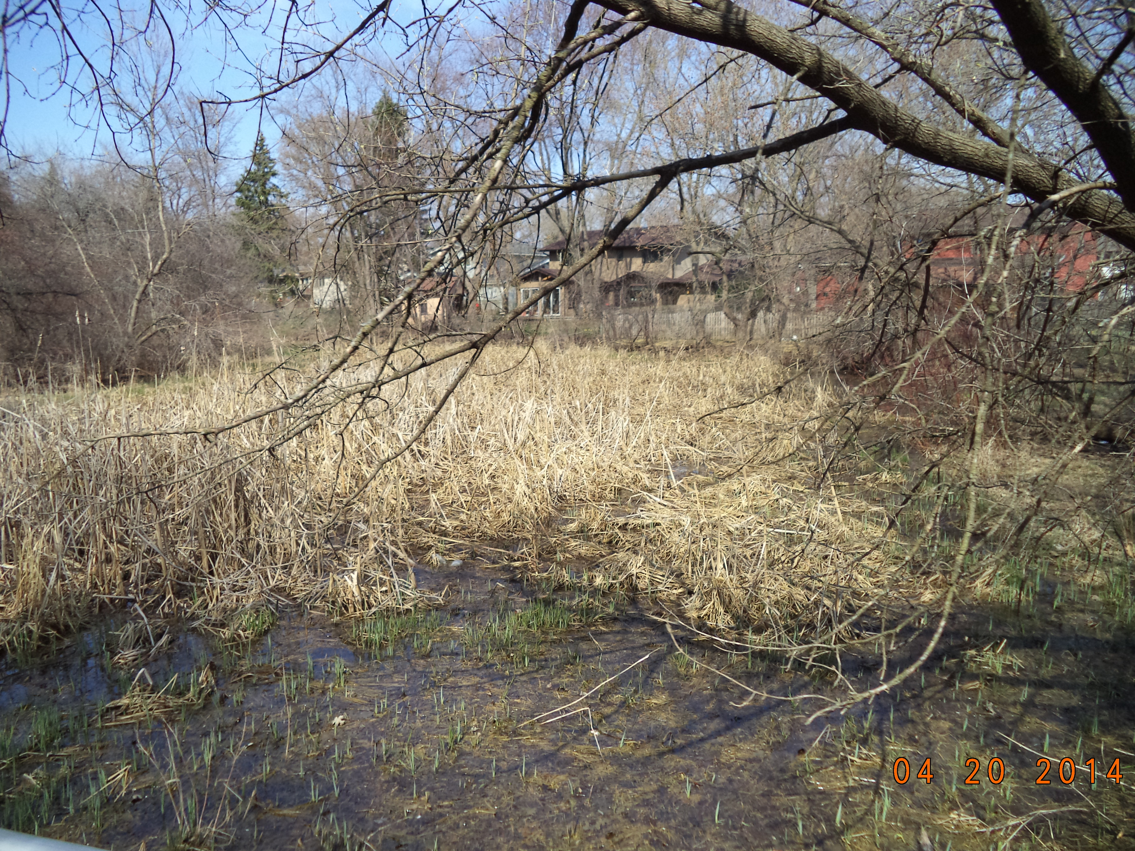 This is a conservation area in Schaumburg, Illinois located in a suburb